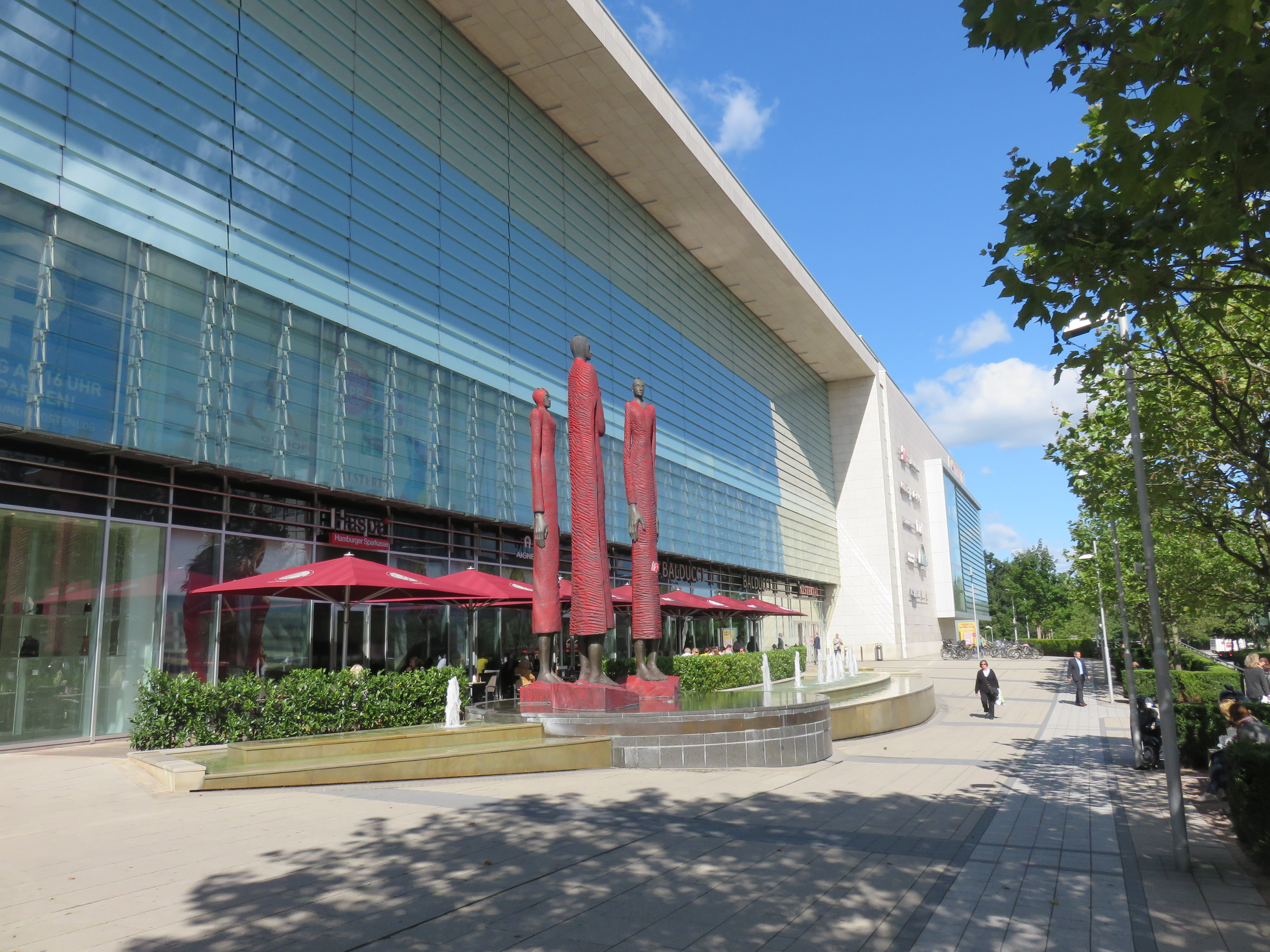 Alstertal-Einkaufs-Zentrum ("AEZ"), Hamburg-Poppenbüttel. Entrance portal with sculpture group Mimir-fountain by Zoyt of 2006.